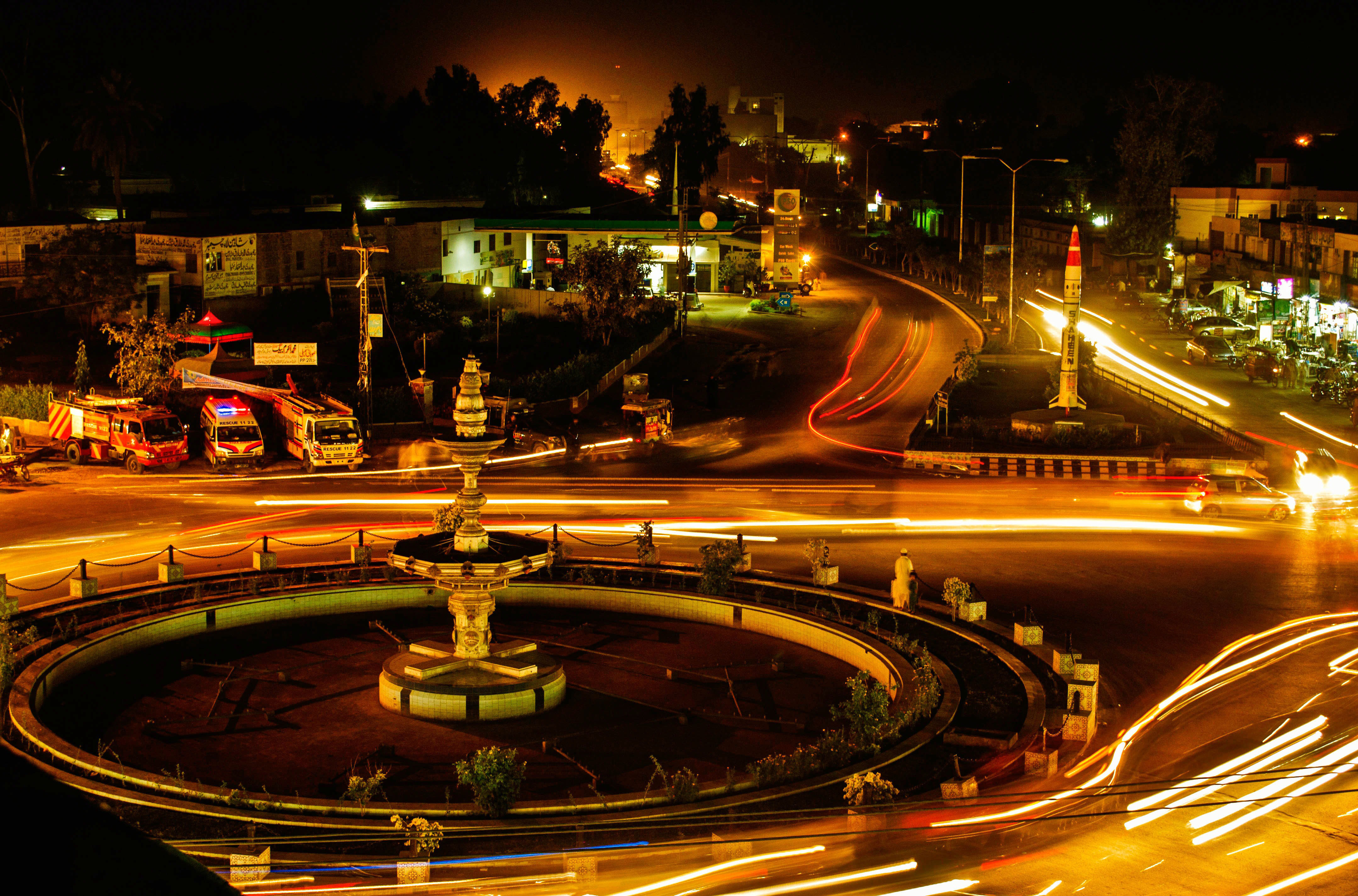 Fountain gifted by Queen Victoria to Nawab of Bahawalpur